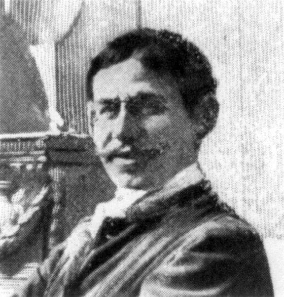 John Flanagan, American sculptor. Illus. in: Cosmopolitan, An Illustrated Monthly Magazine, May 1900, p. 25.